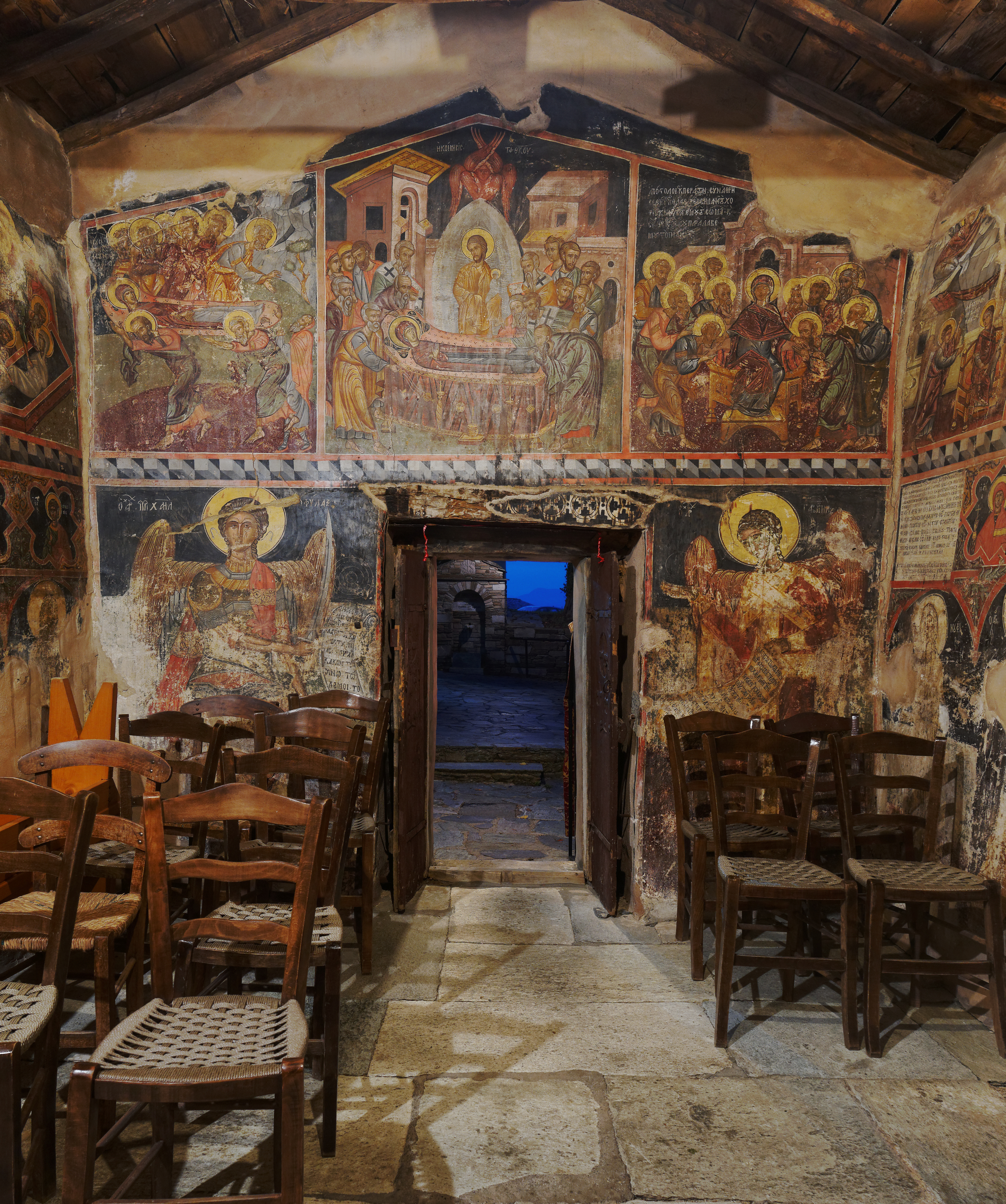 The frescoes inside Panagia Portarea, Volos, Greece, dating from the 16th centrury. The depict the Dormition of Theotokos (above) and the two archaggels (below).